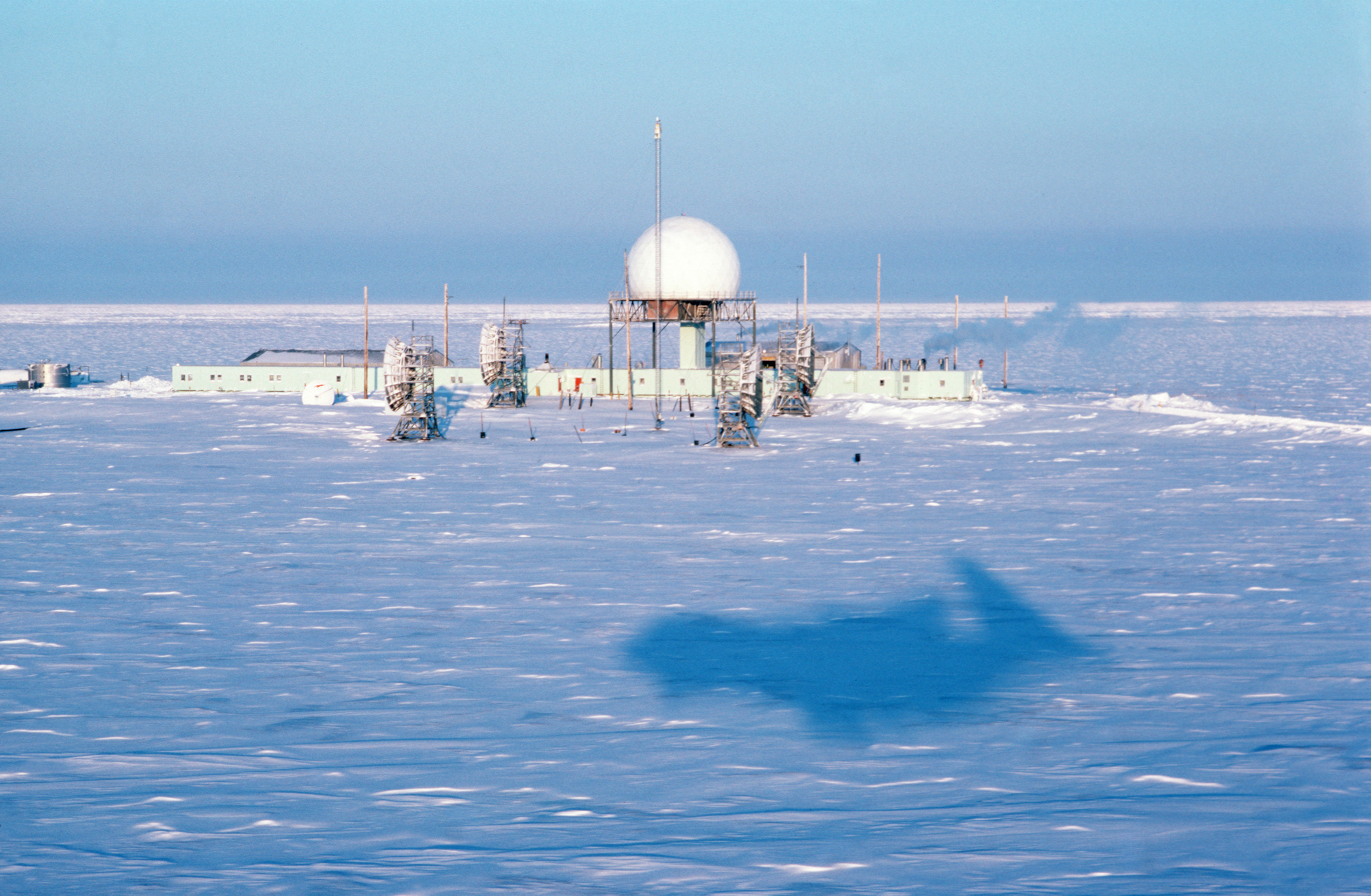 DF-ST-88-03448 - The shadow of an aircraft passes over a radar station. The radar station POW-2 is one of 30 under US Air Force control on the Distant Early Warning (DEW) Line which runs approximately 3,600 miles, from Alaska, across Northern Canada to Greenland. Location: OLIKTOK